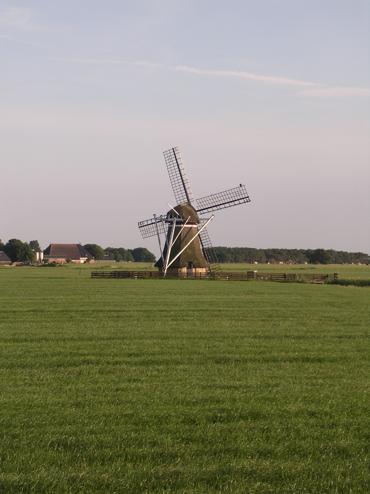 The windmill Klaarkampstermolen near the village of Rinsumageest